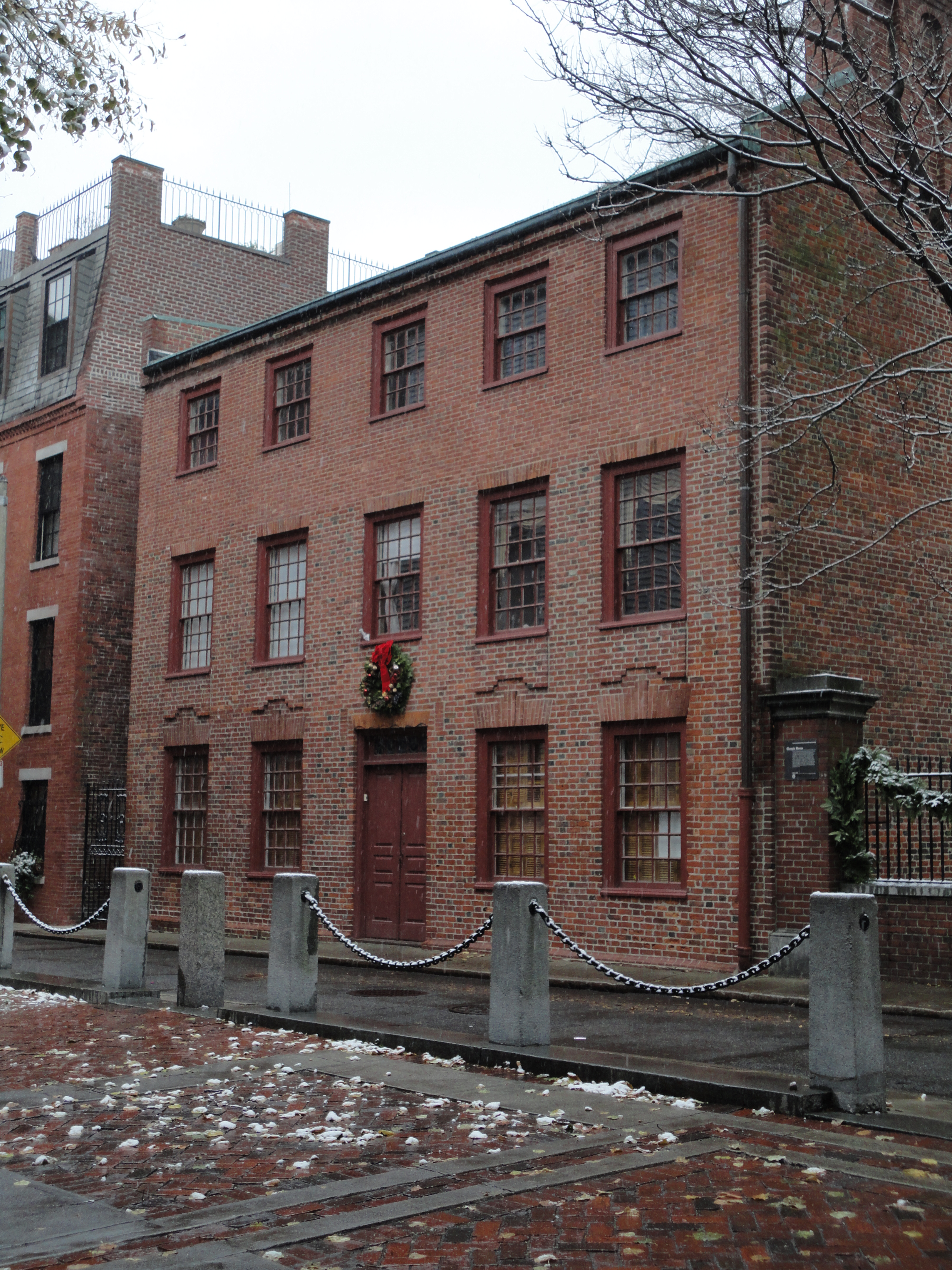 The Clough House is located in the North End of Boston, MA. It was built in 1712 and was home to Ebenezer Clough, the master mason who helped build the adjacent Old North Church.